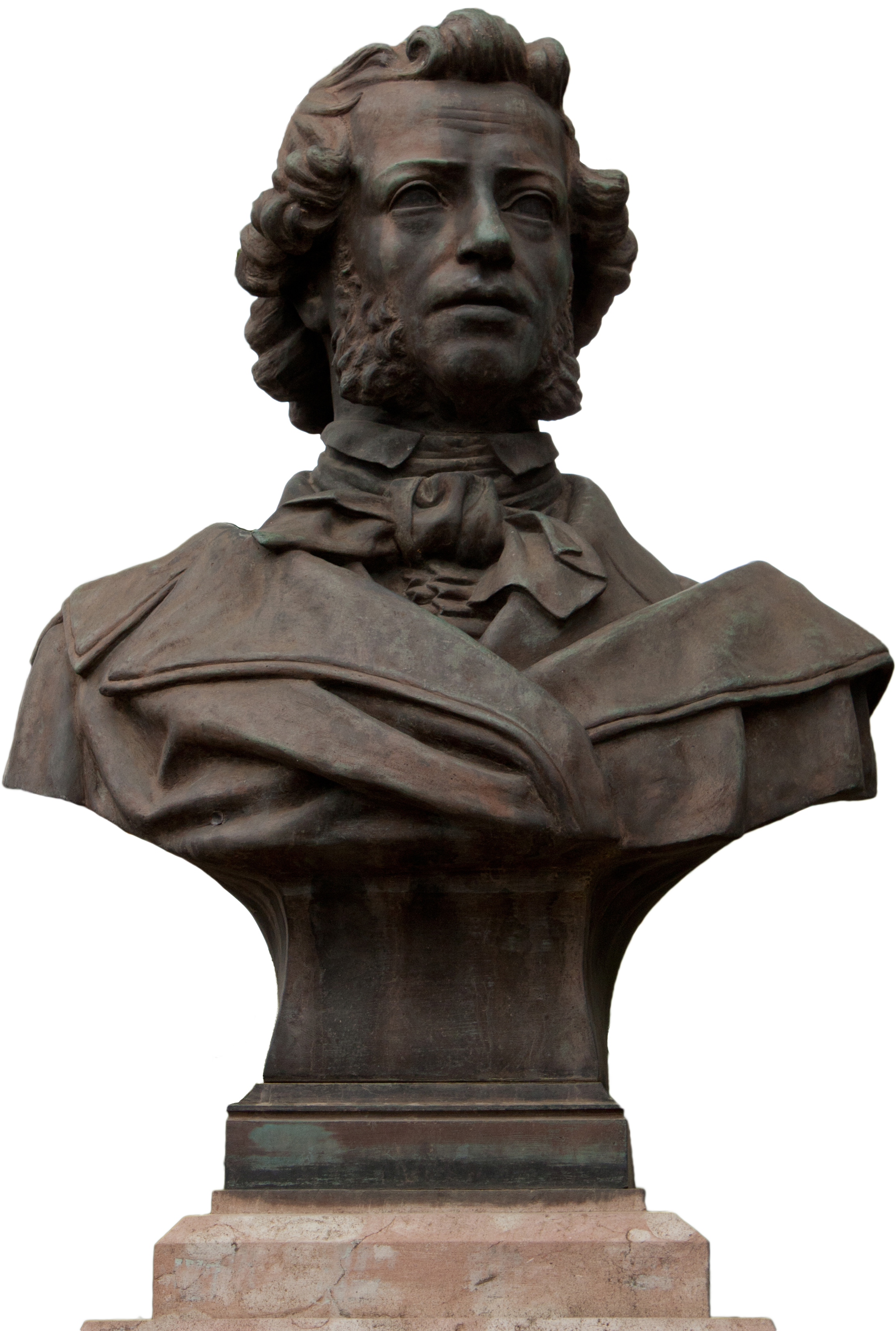 The monument of Alexander Pushkin in Georgia's capital Tbilisi.